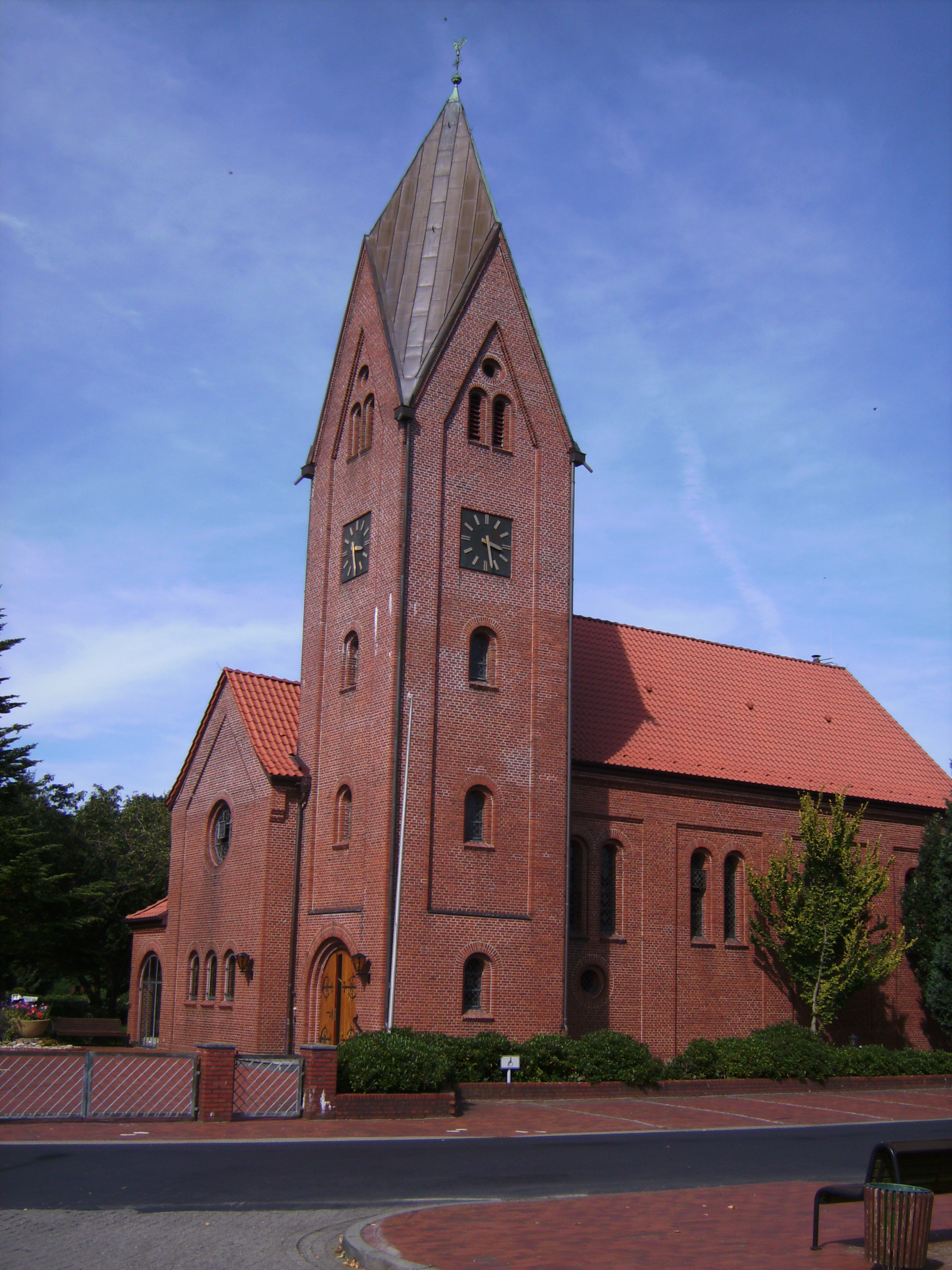 Lehe, church